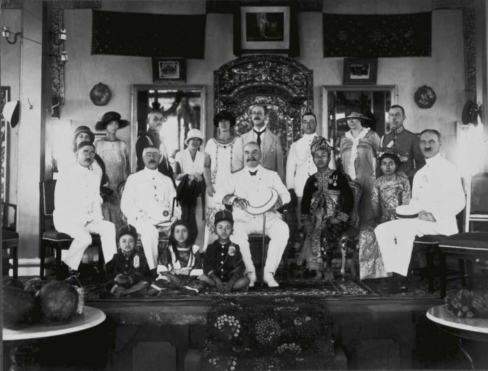 Group portrait during the visit of governor general Fock to the 'Stedehouder' of Karangasem